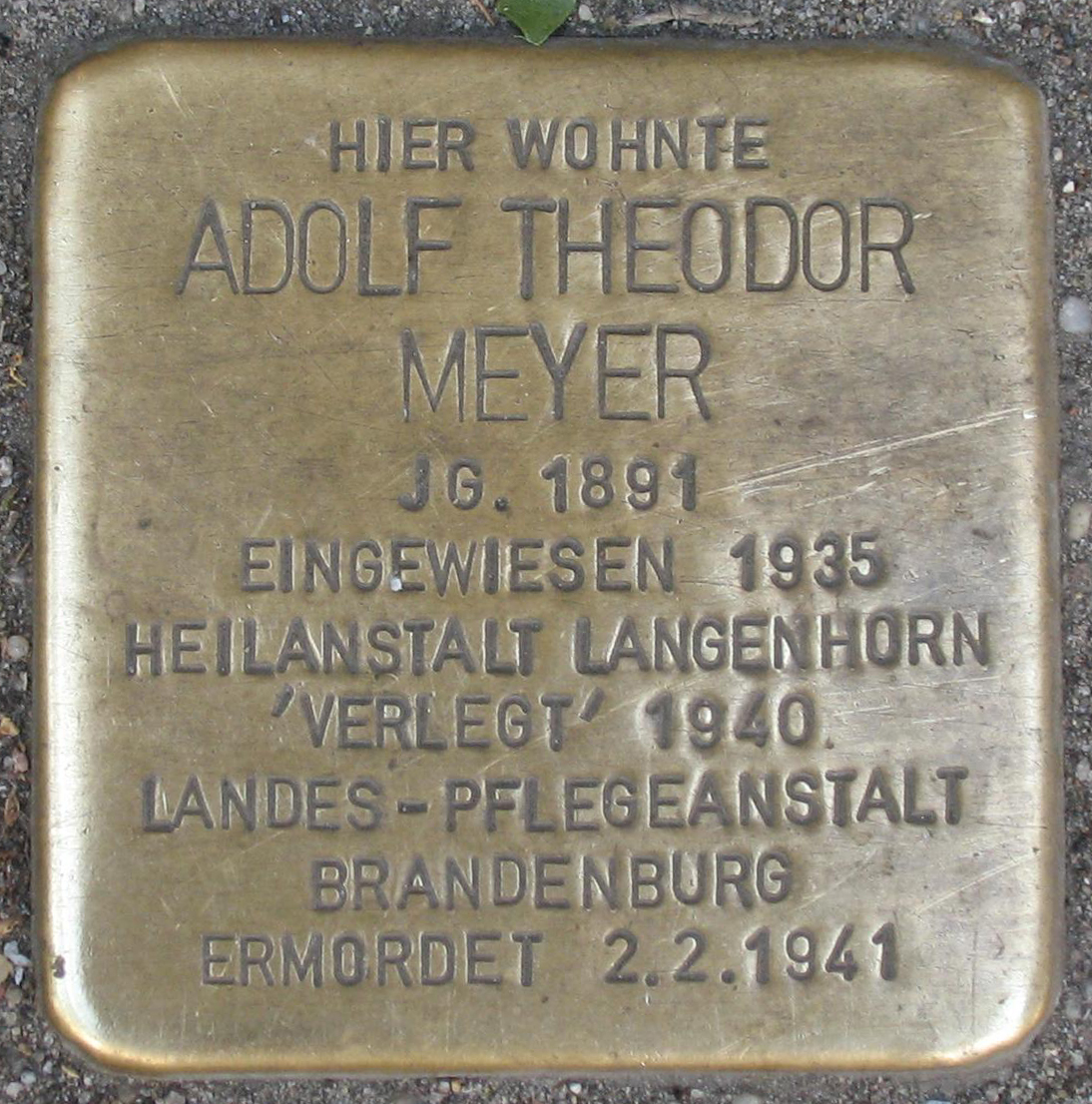 "Stumbling block" in Hamburg-St. Pauli, Germany